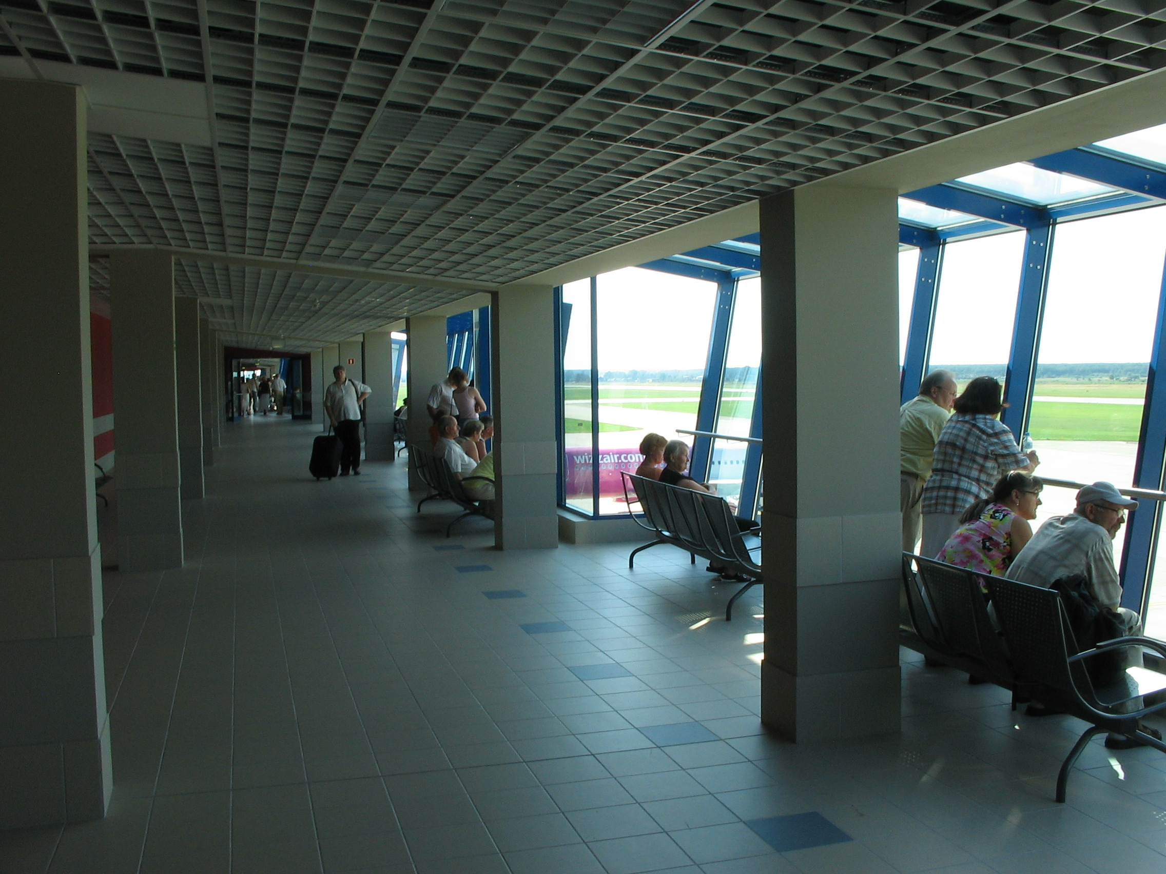 Katowice International Airport in Pyrzowice - terminal B - viewing terrace